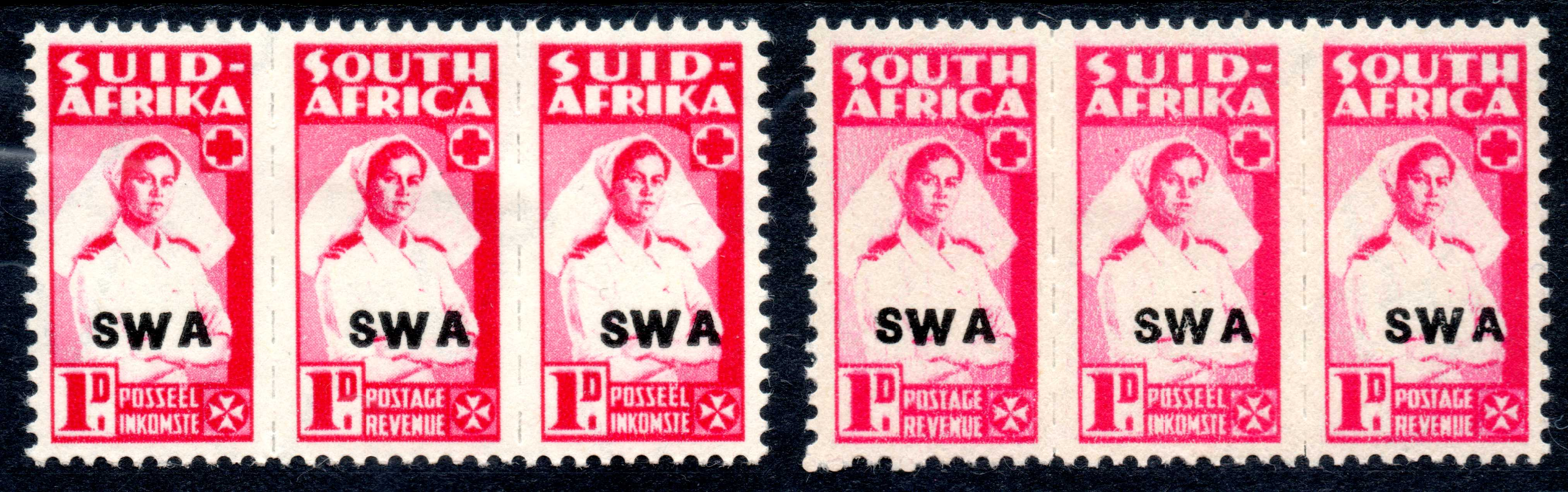 Stamps produced in South Africa during World War two and overprinted for use in South West Africa (now Namibia). The stamps were rouletted vertically as a wartime economy measure so that three stamps could be produced from the same amount of paper normally used to produce one.